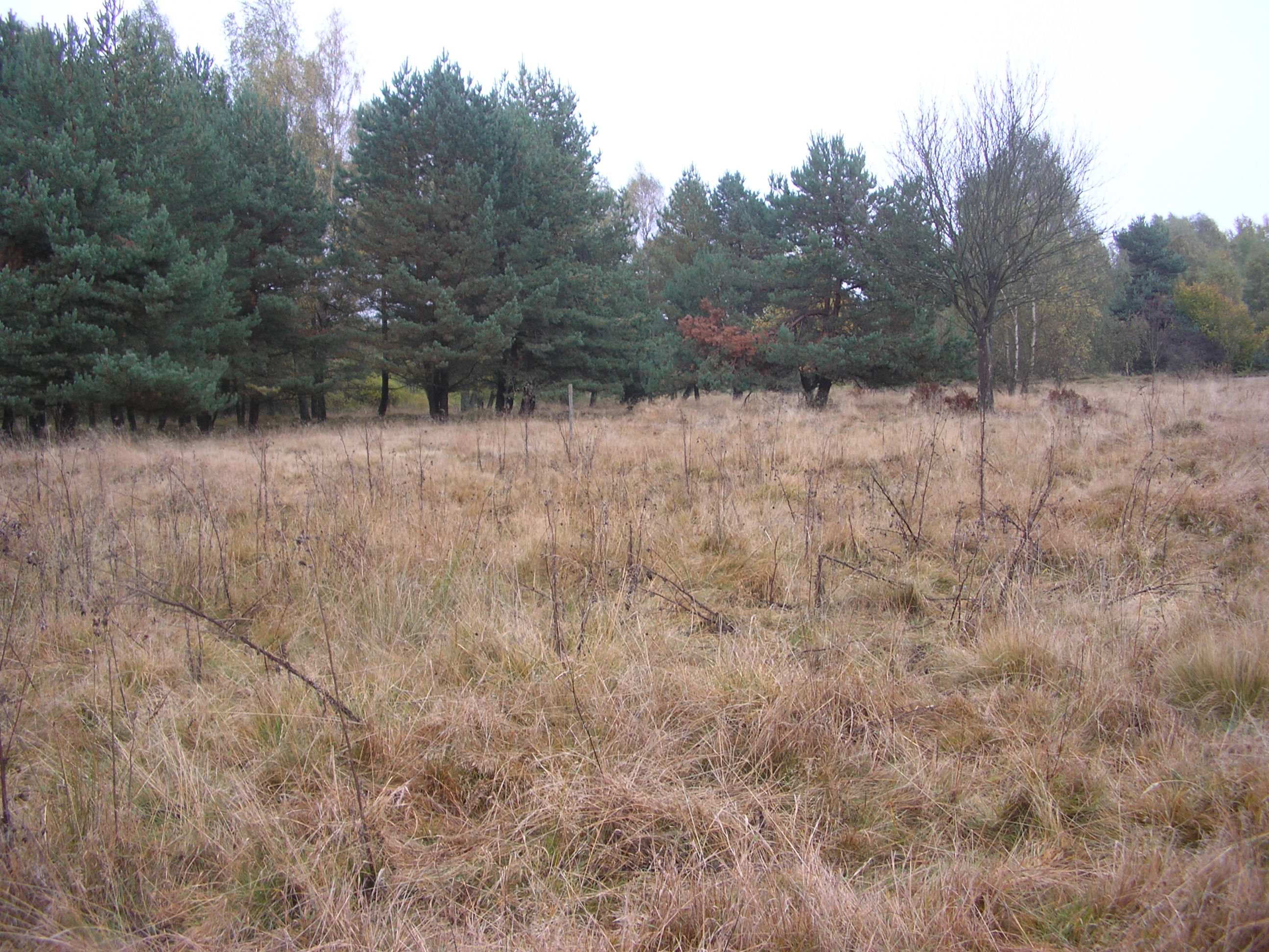 nekosená louka, v pozadí starší náletové dřeviny